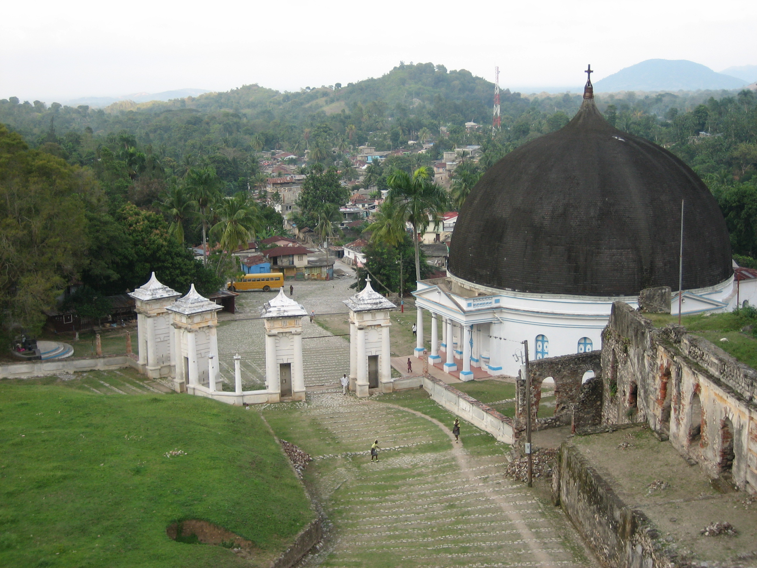 Image of the town of Milot, Haiti taken from the Sans-Souci Palace.